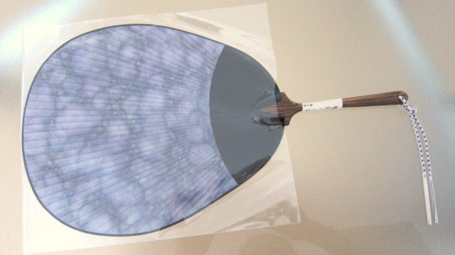 A kind of Japanese - fan . Made in Tsu - City , Mie .